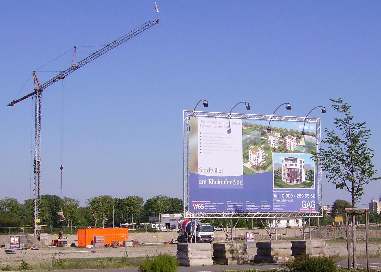 view of Ludwigshafen in Rhineland-Palatinate, Germany